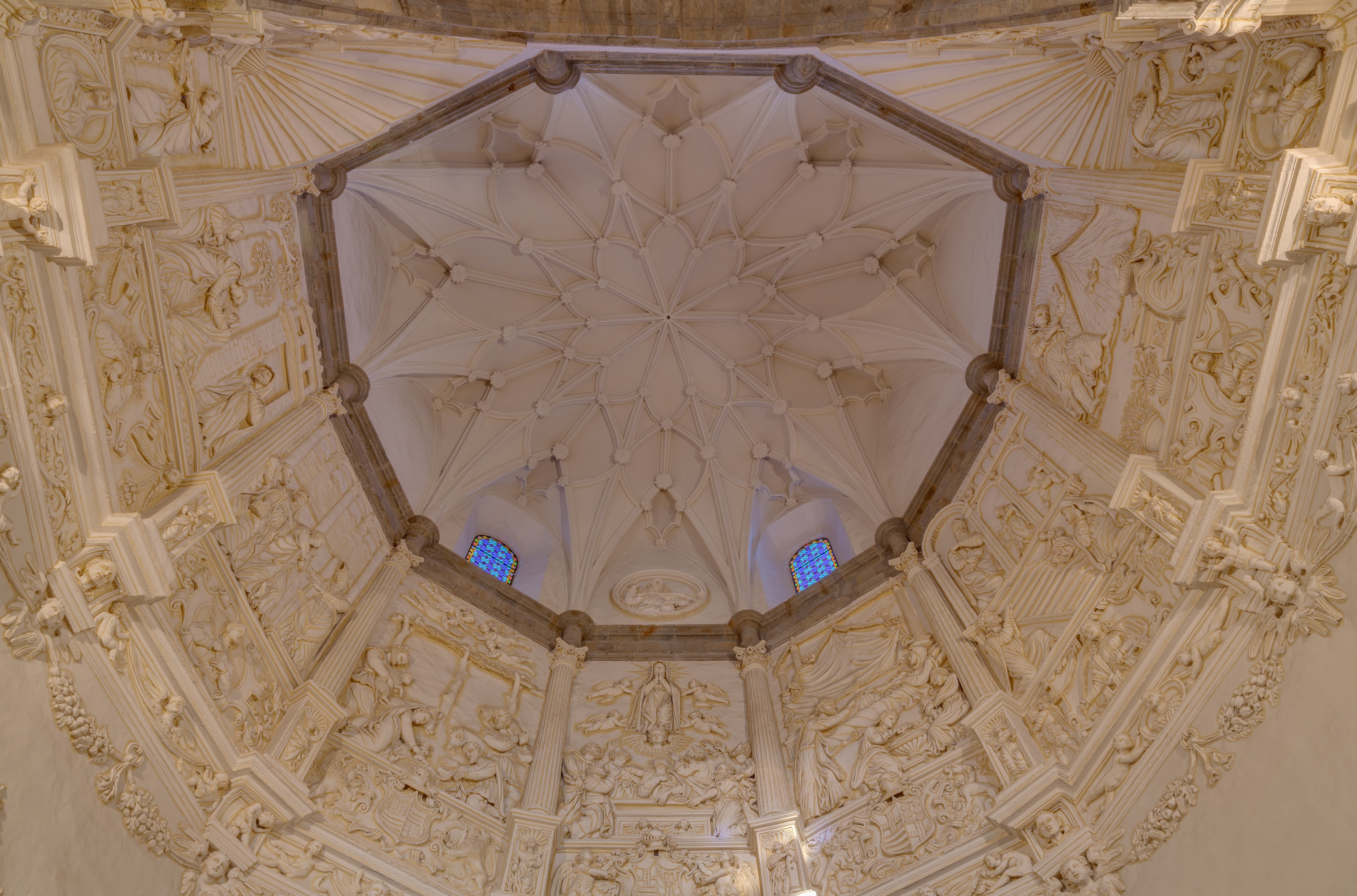 Basilica of Our Lady of Wonders, Ágreda, Spain